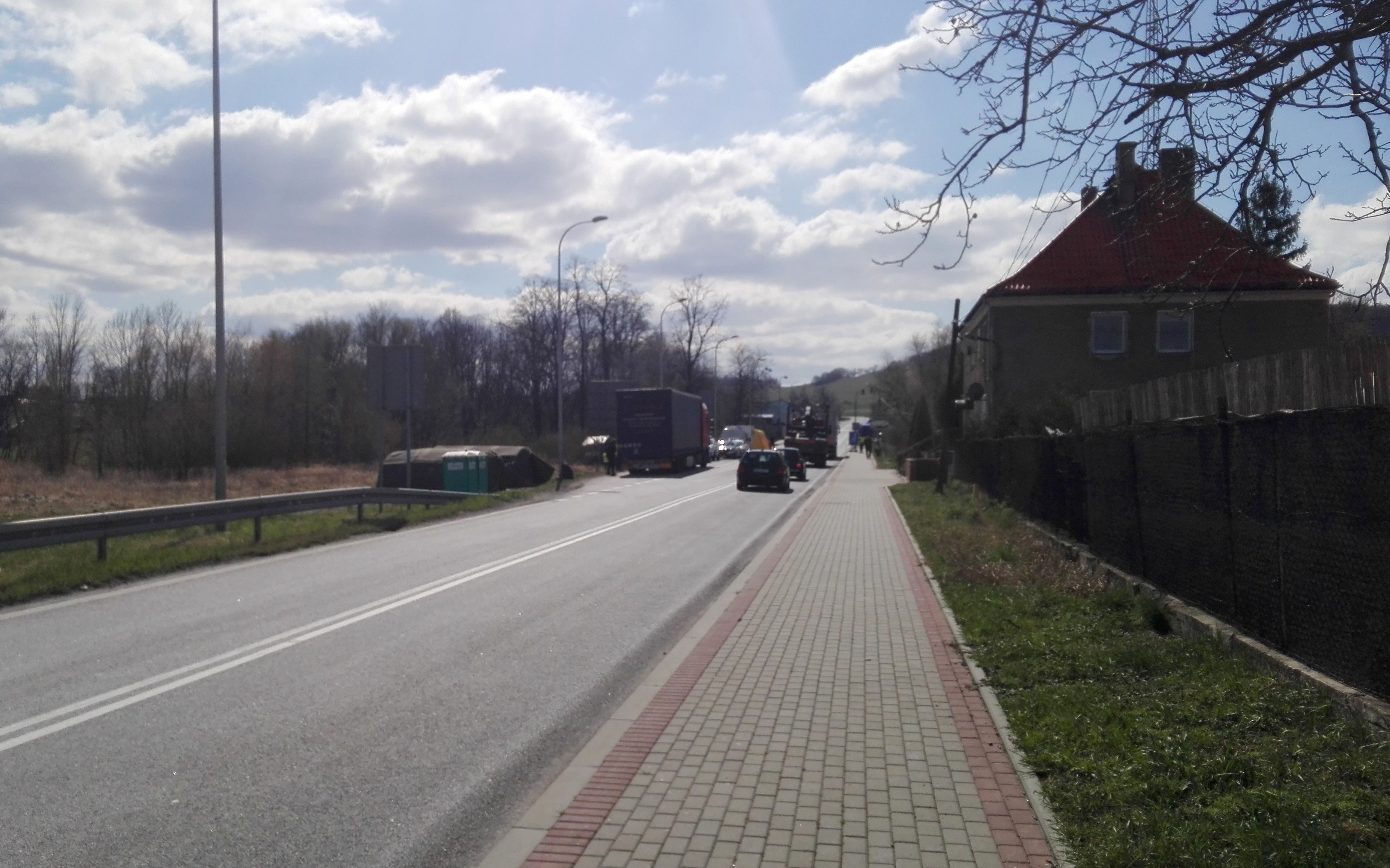 Trzebina-Bartultovice border crossing.